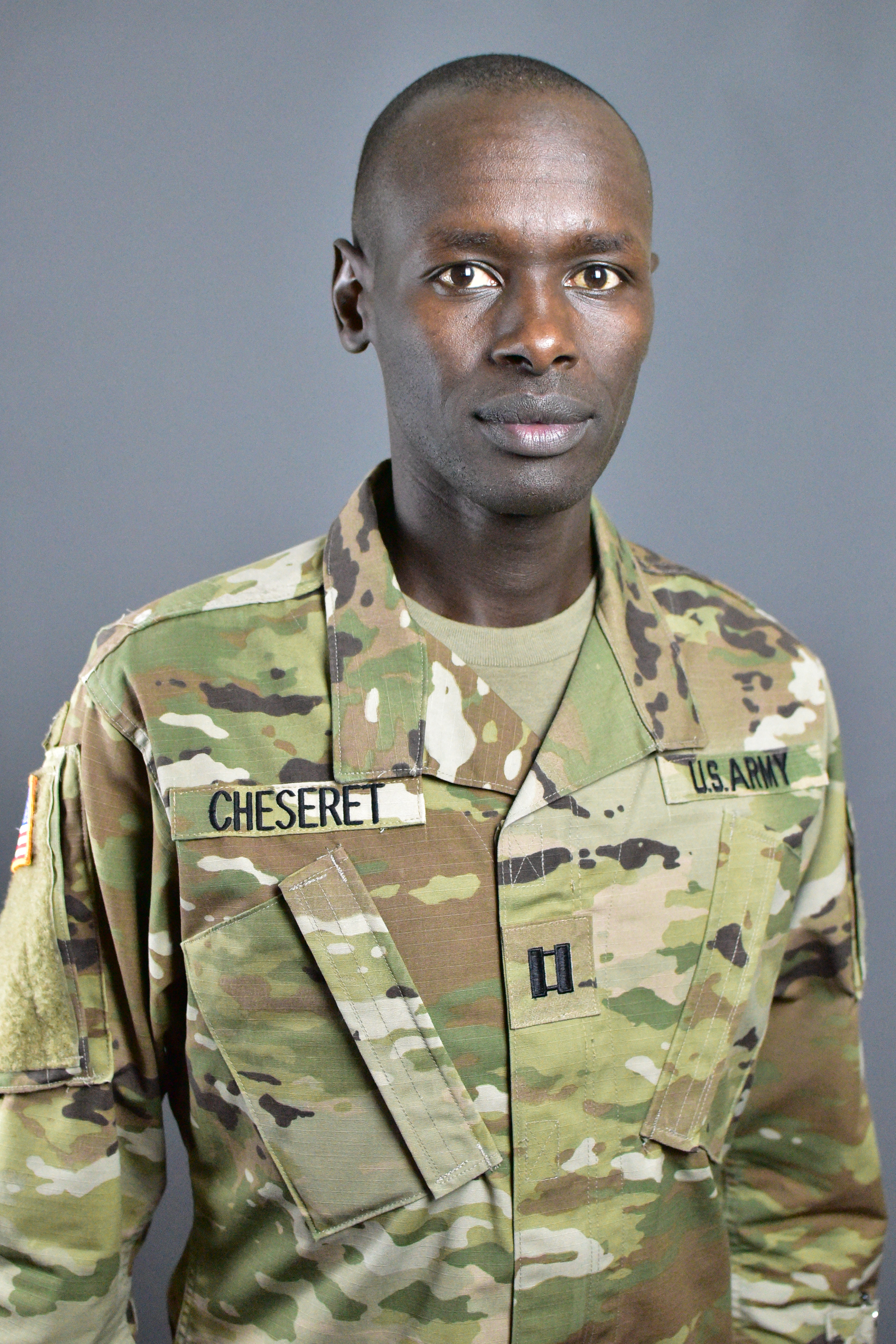 U.S. Army WCAP CPT Cheseret